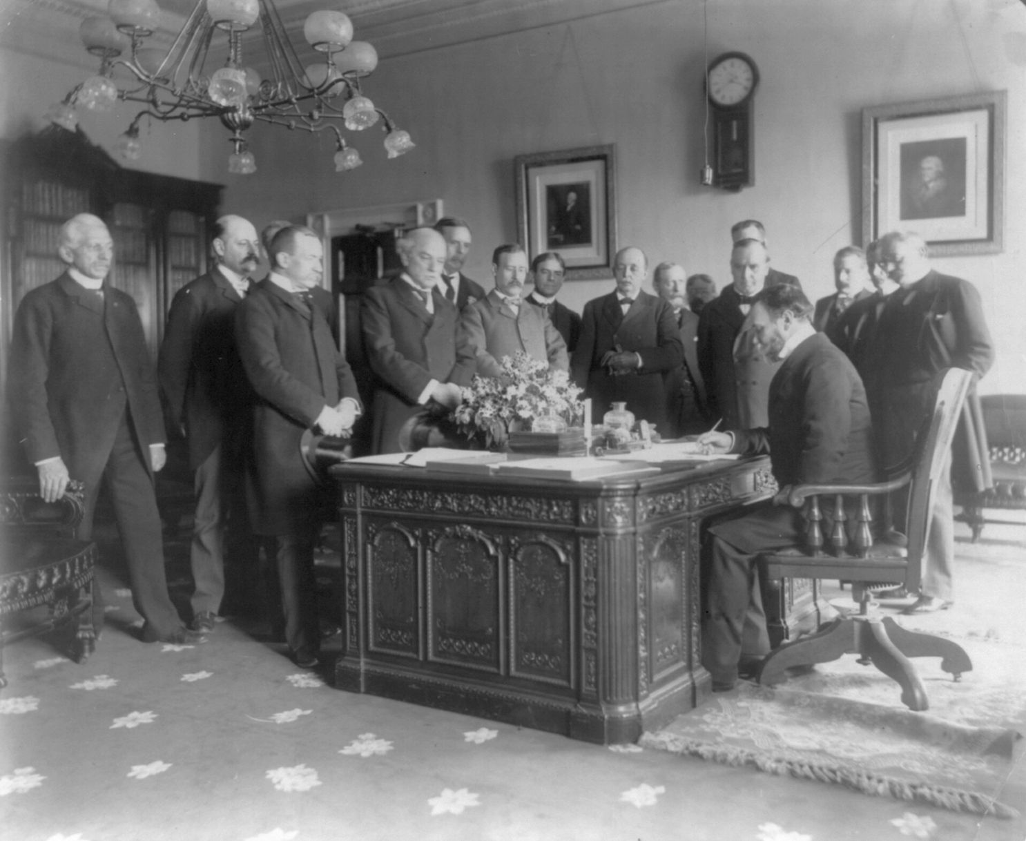 Secretary of State John Hay signs a peace treaty with Spain at the Resolute desk in President McKinley's office, in the White House, 1898